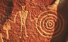 Image attribution: "Copyright by J. Q. Jacobs, " Upload by image owner.